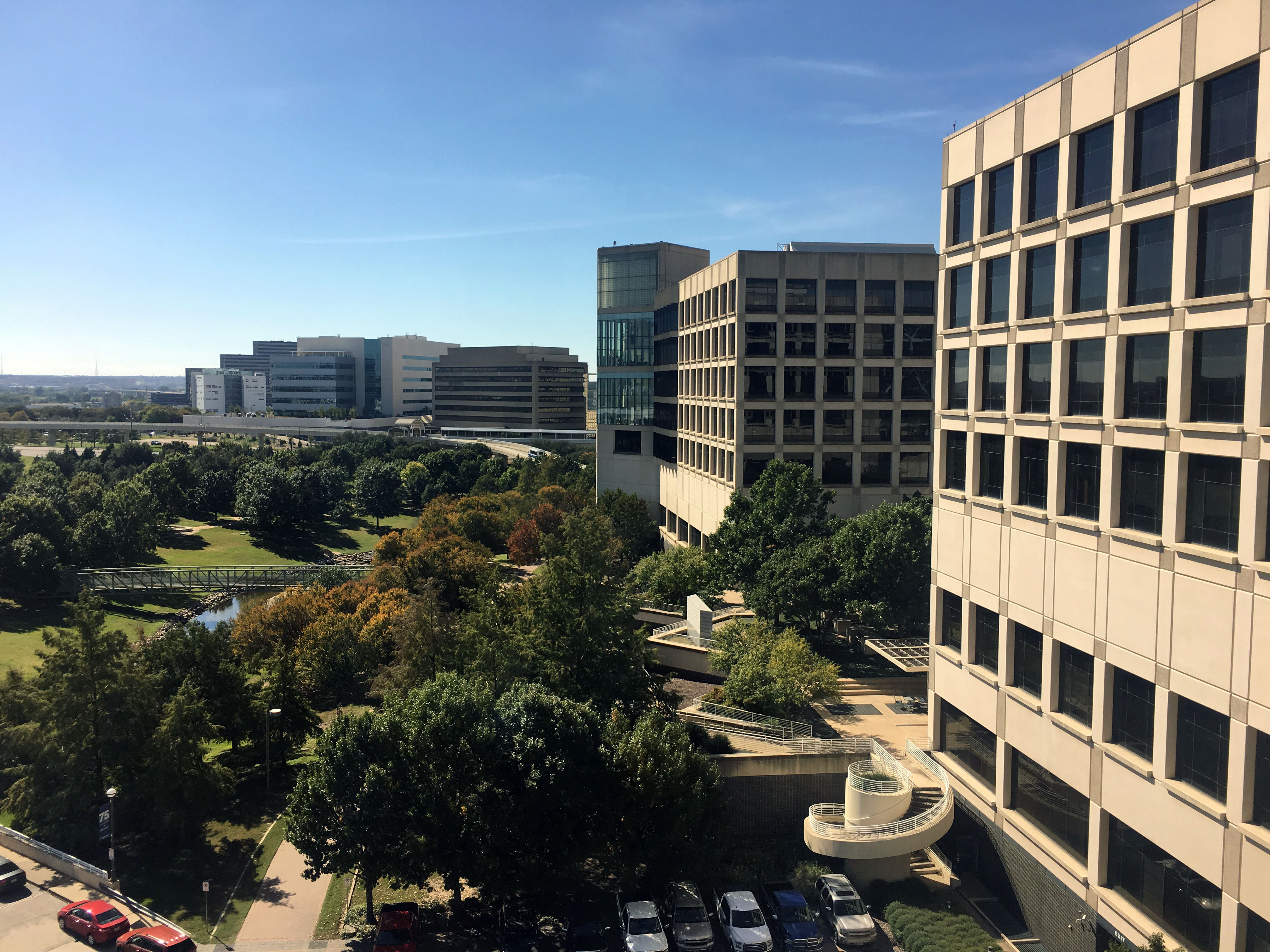 UTSW campus